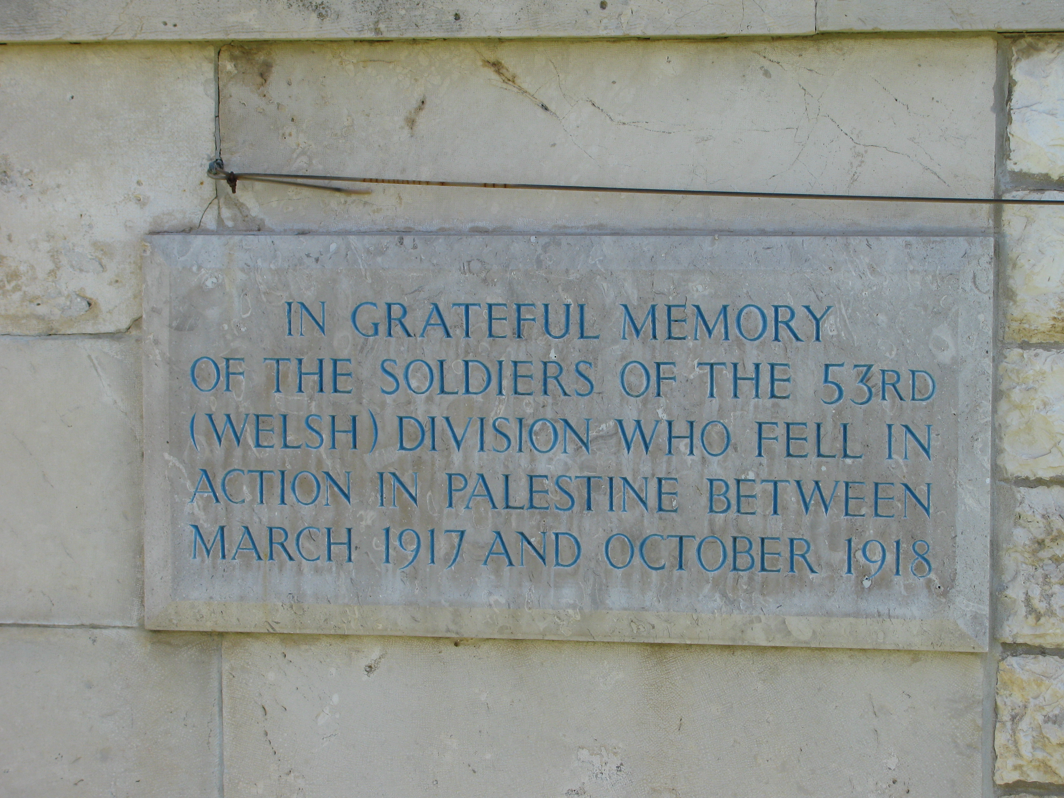 53rd Welsh division memorial commemoration plaque - Ramla military cemetery